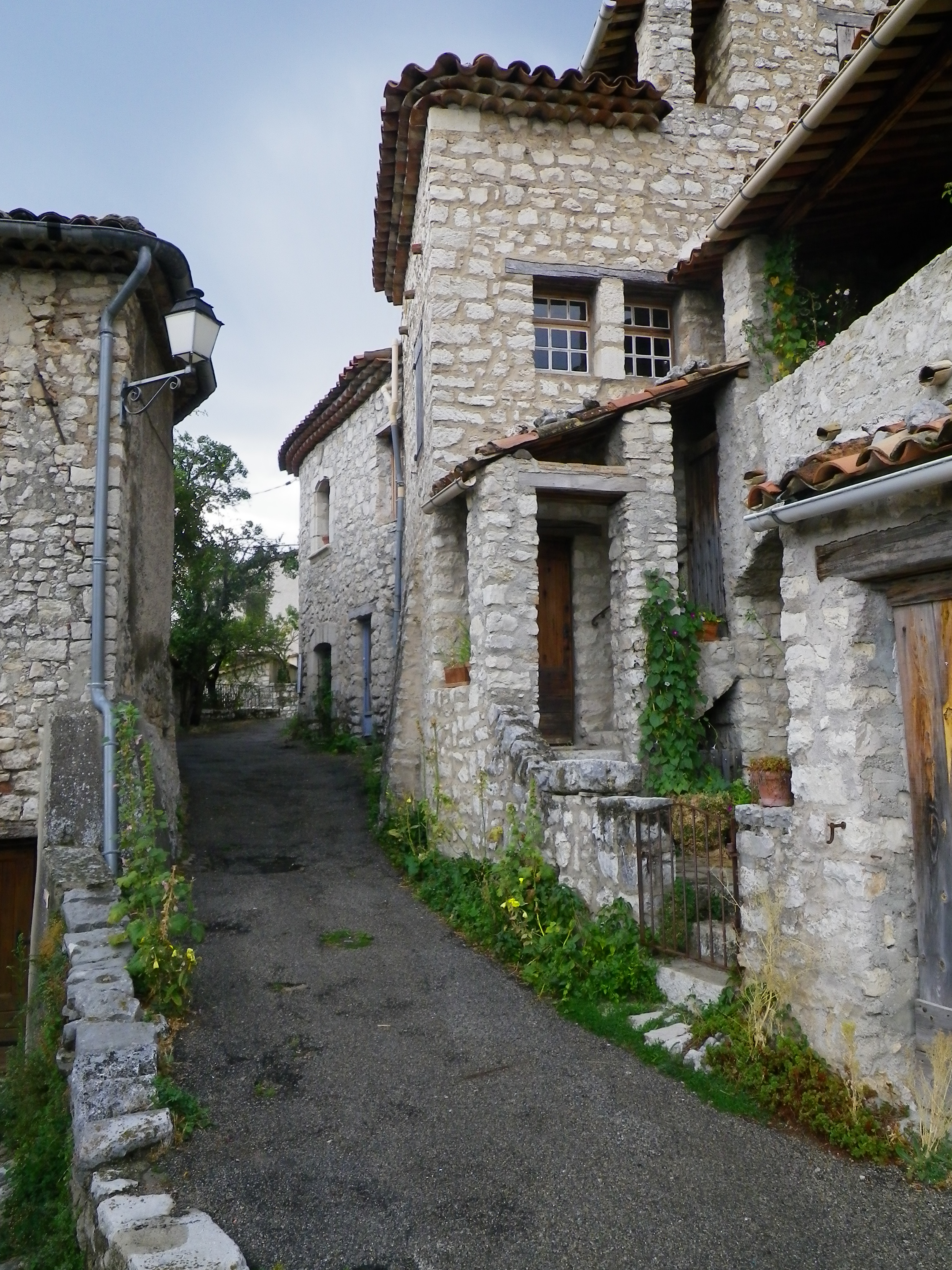 Street in Trigance (Var department, France)